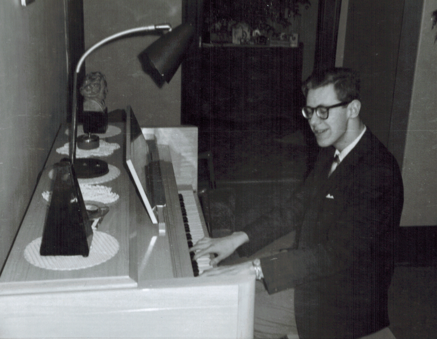 René Jetté playing piano, date unknown